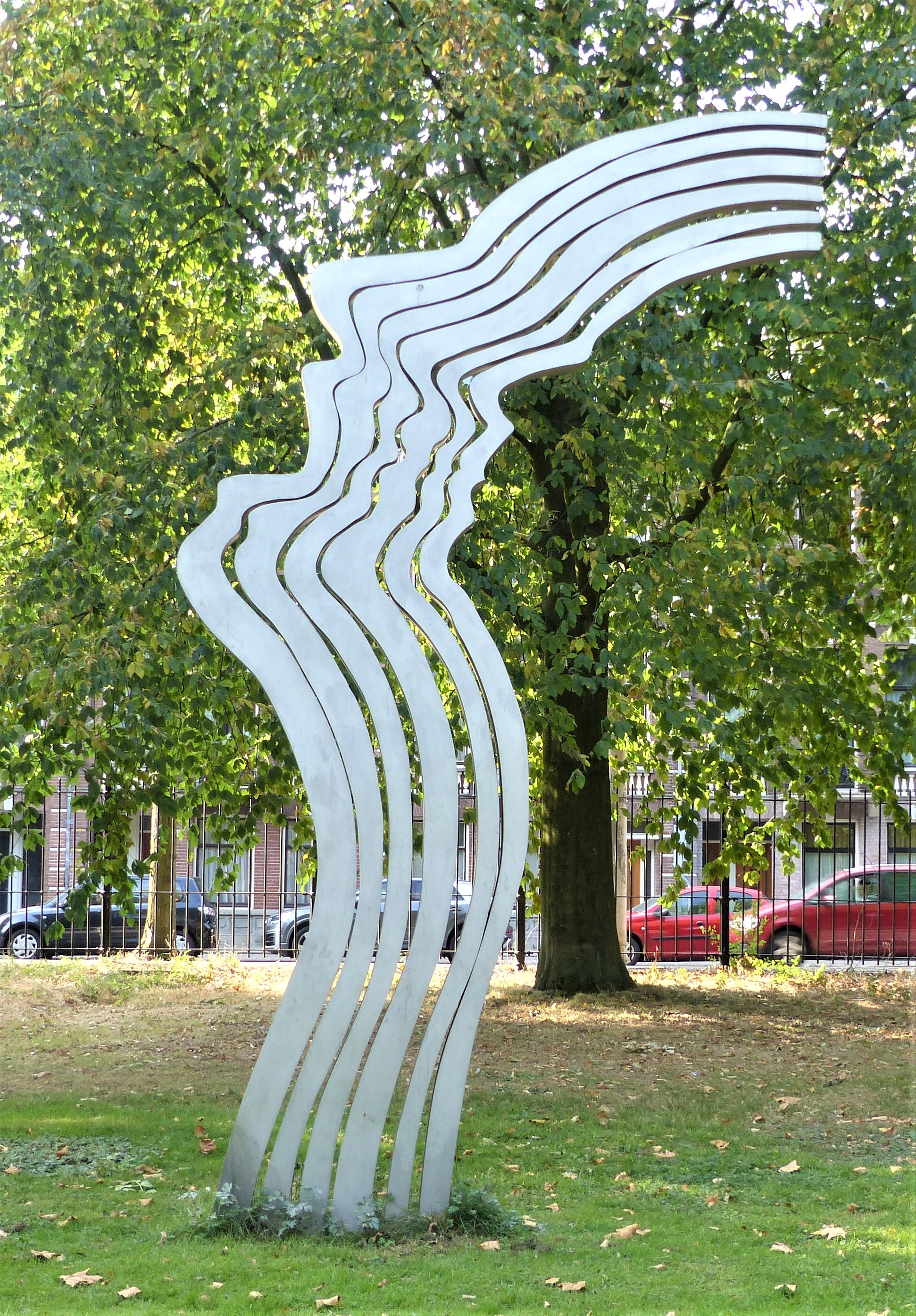 Homage to Theo van Gogh. On the 4th of August, 2018, Oosterpark, Amsterdam, Netherlands.